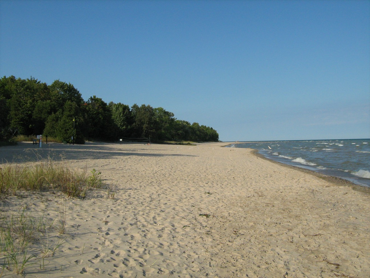 Beach and woodlands on Lake Huron — in Harrisville State Park, Alcona County, eastern Michigan.